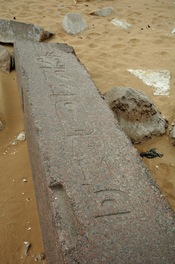 Piers from the funary Temple of Djedkare-Isesi, late 5th Dynasty, ca. 2400 BC, south Saqqara